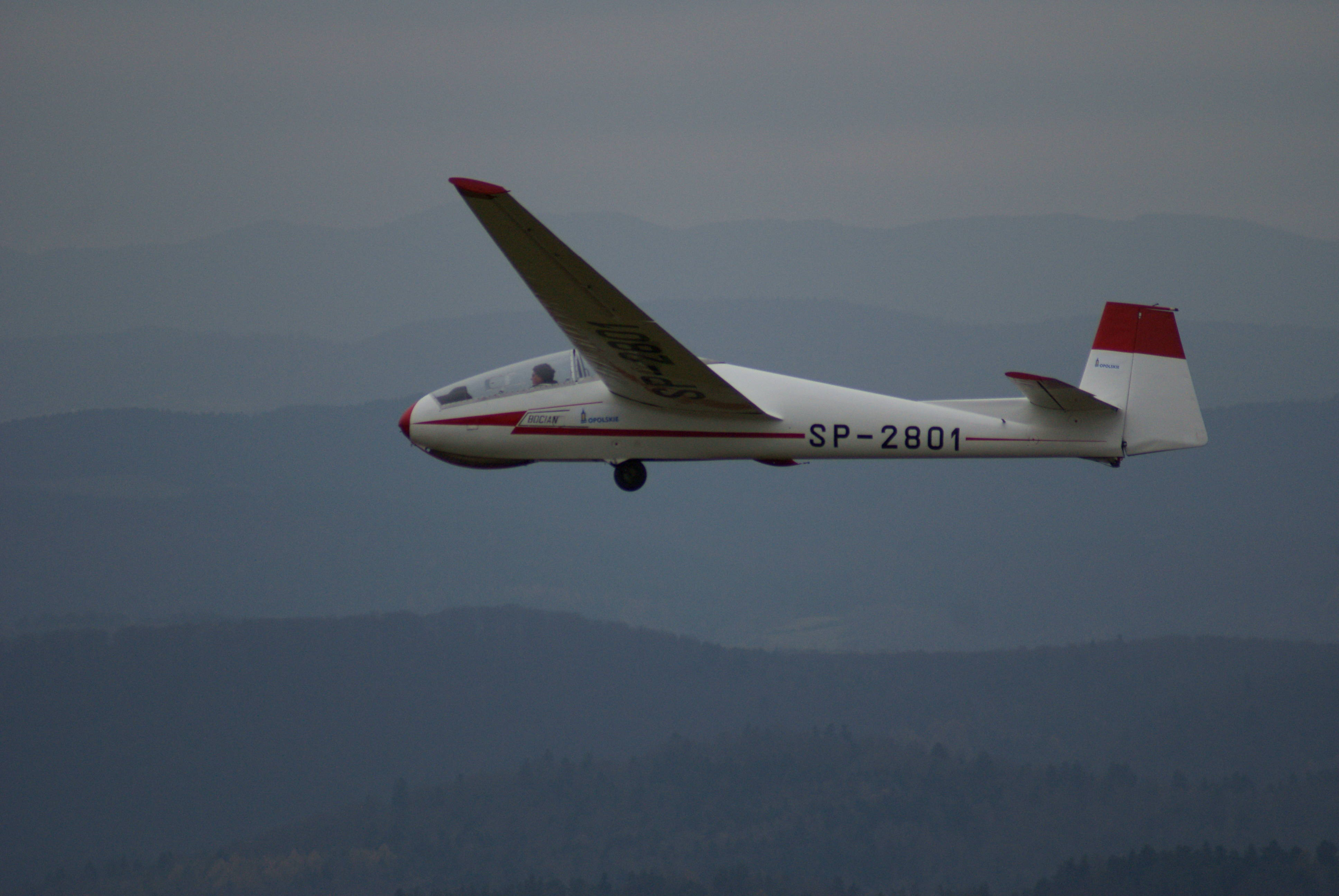 Glider SZD-9 Bocian SP- 2801 from Areoklub Opolski (EPOP) in soaring fly